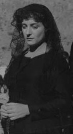 Edda Vermond- actriz